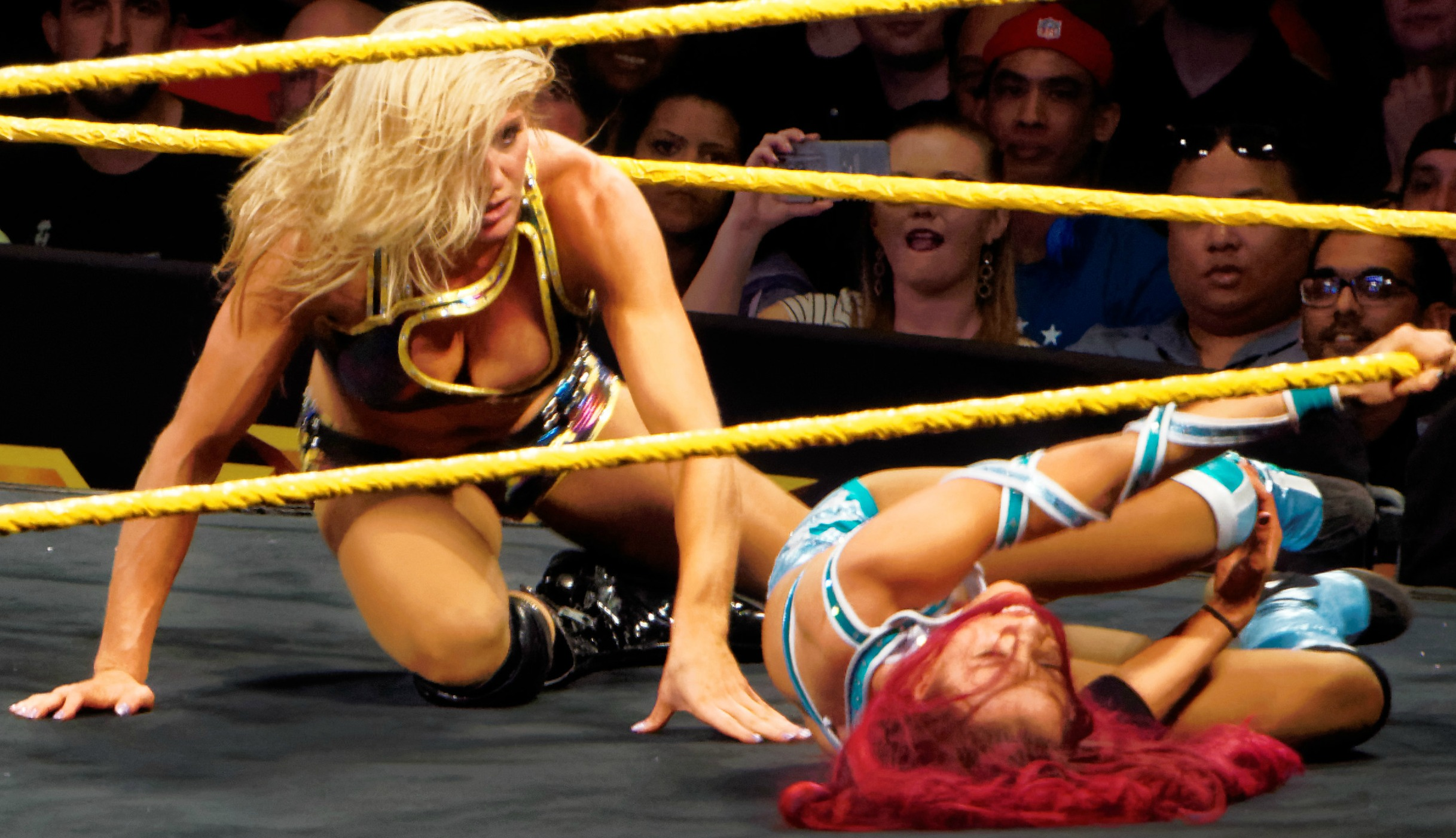 Sasha Banks and Charlotte wrestling during an NXT Live event in March 2015.